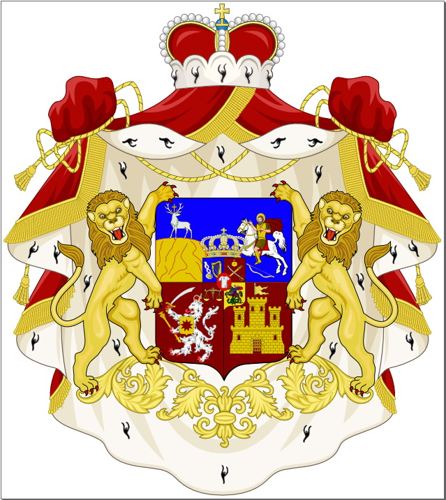 Tarkhan-Mouravi coat of arms. 19th century